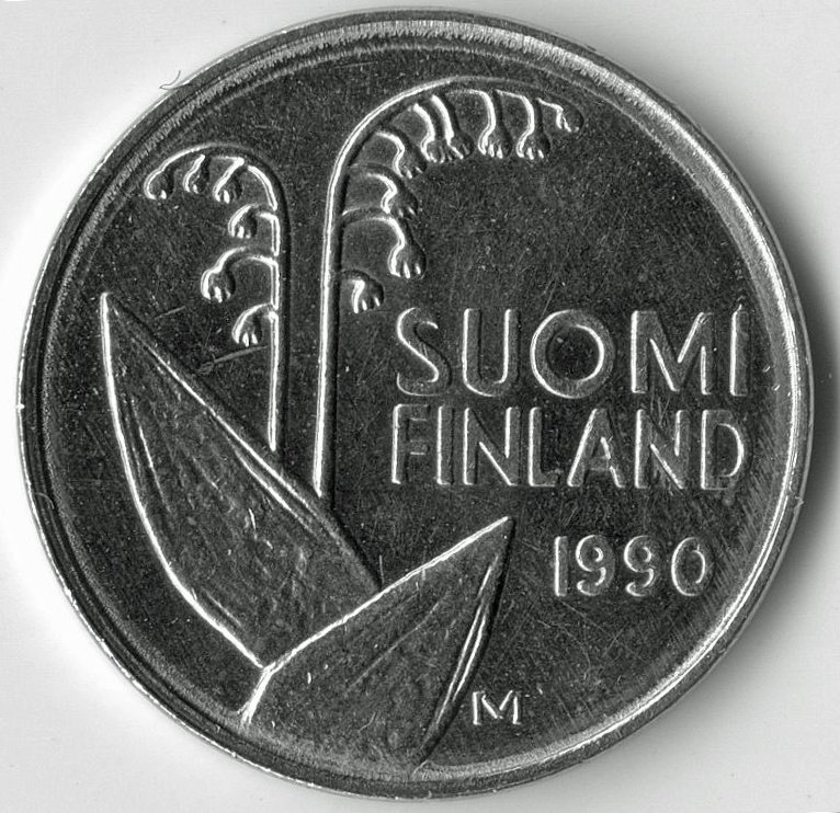 SUOMI / Finland, Penni, 1990 (with the image of Convallaria majalis).